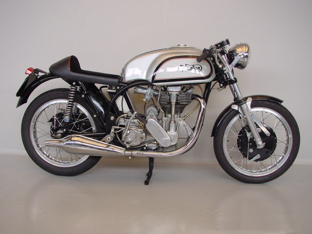 Manxman motorcycle built by Neville Evans in the late 1990s with Featherbed frame. NOTE: The Dutch text reads "The telescopic fork is by the Italian brand Ceriani